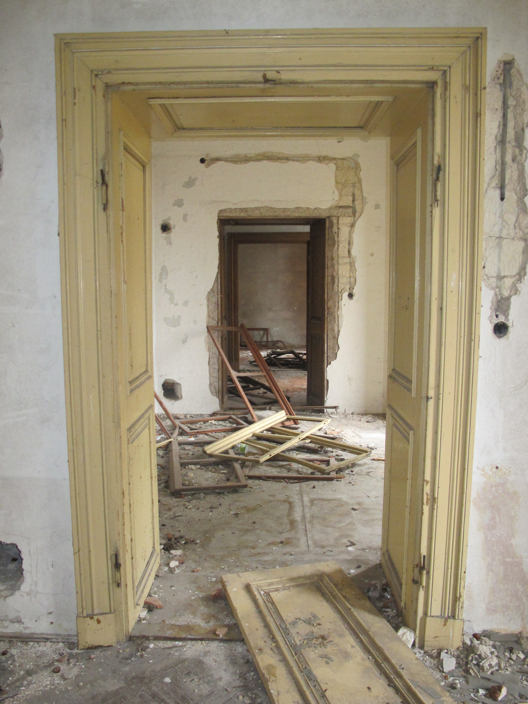 Inside of the Postoloprty castle